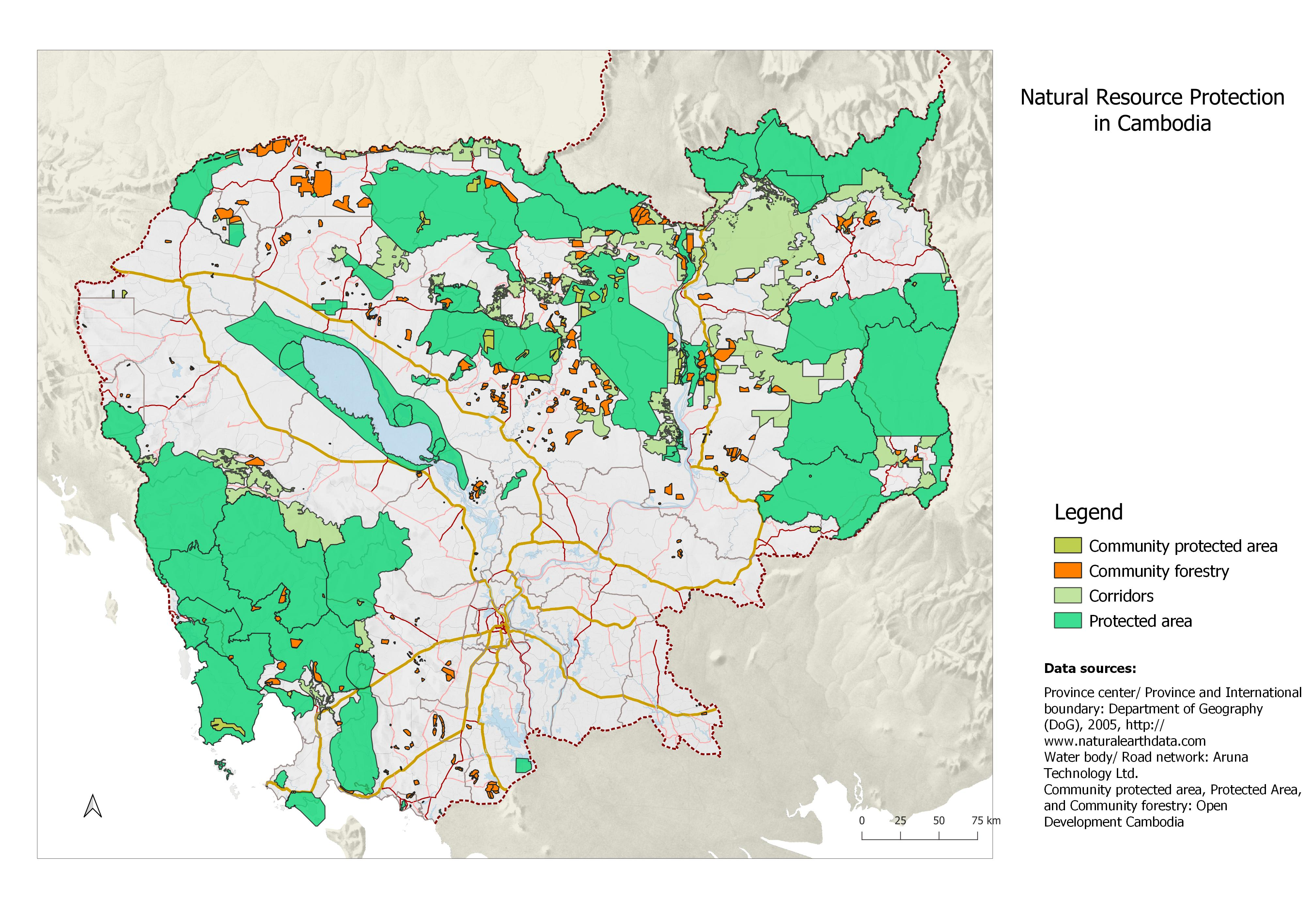 Natural Resource Protection in Cambodia